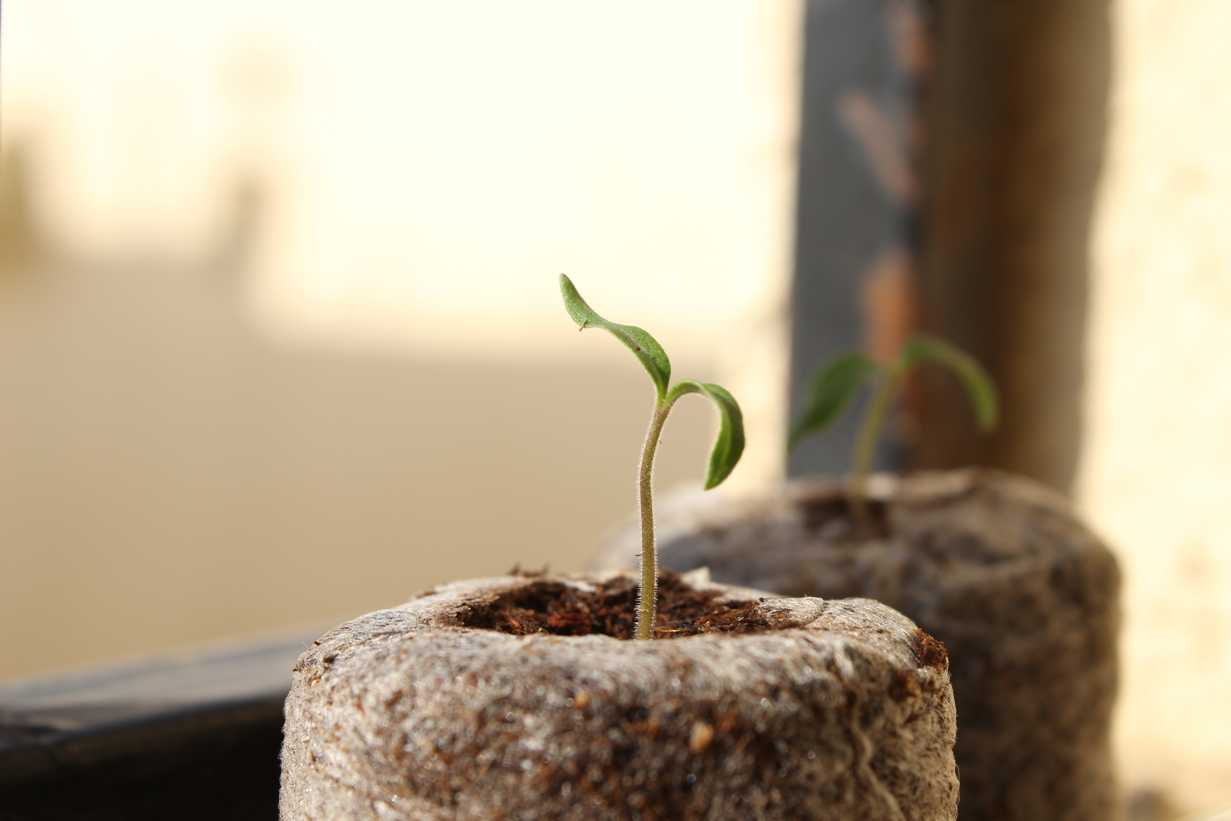 Tomato plant